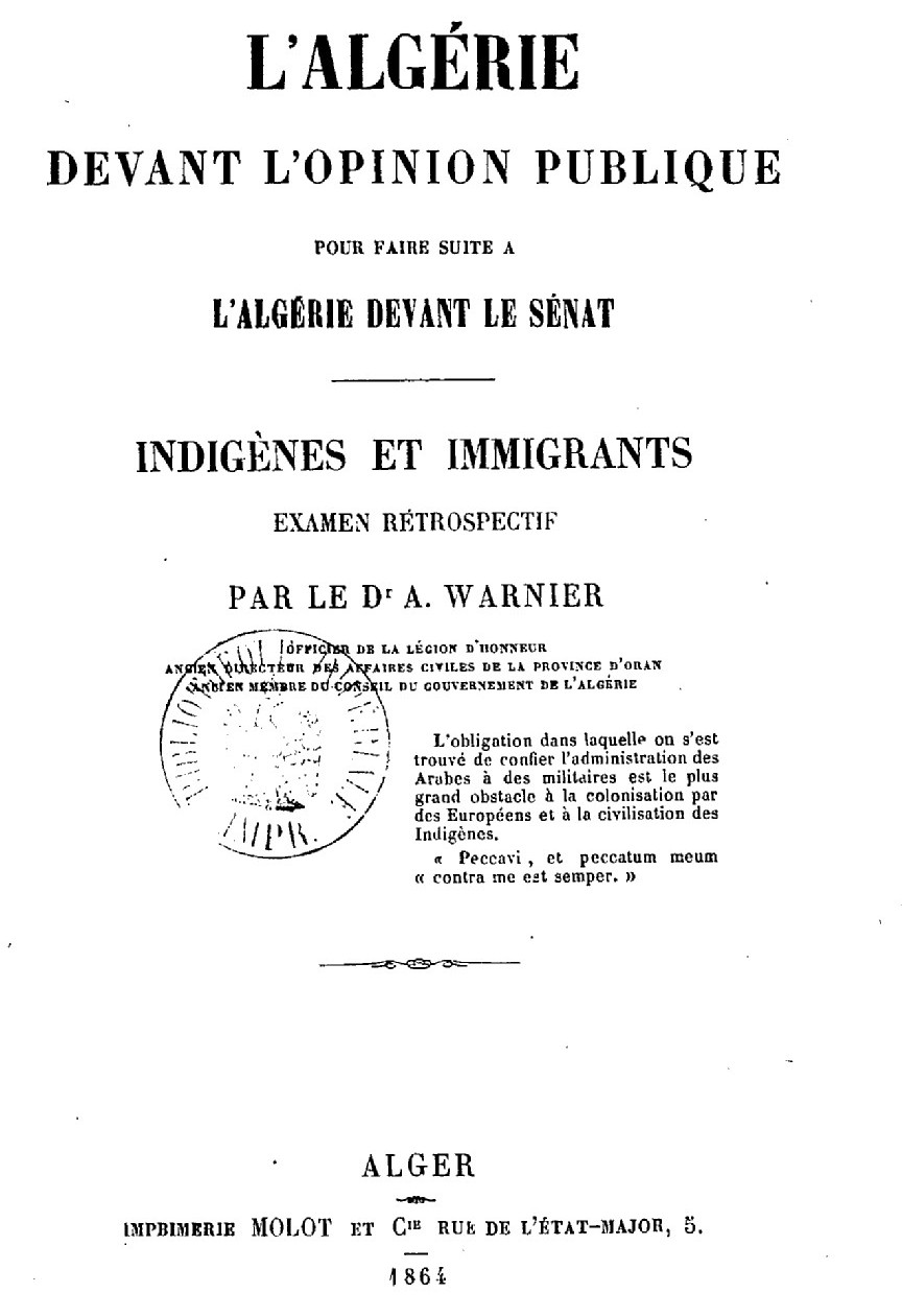 Cover page of L'Algérie devant l'opinion publique